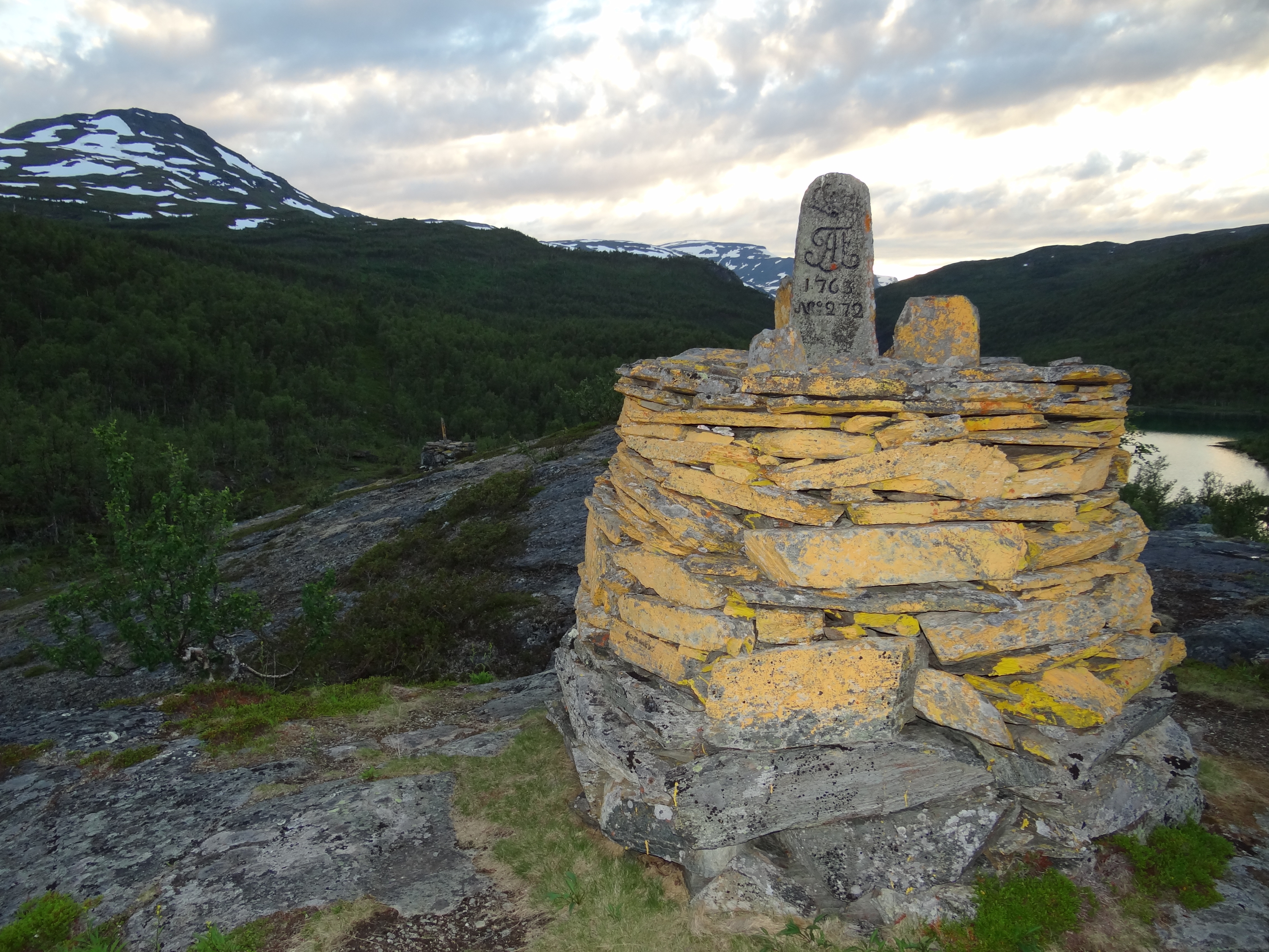 The boundary marker on the border between Norway and Sweden in a remote area in the Arctic.